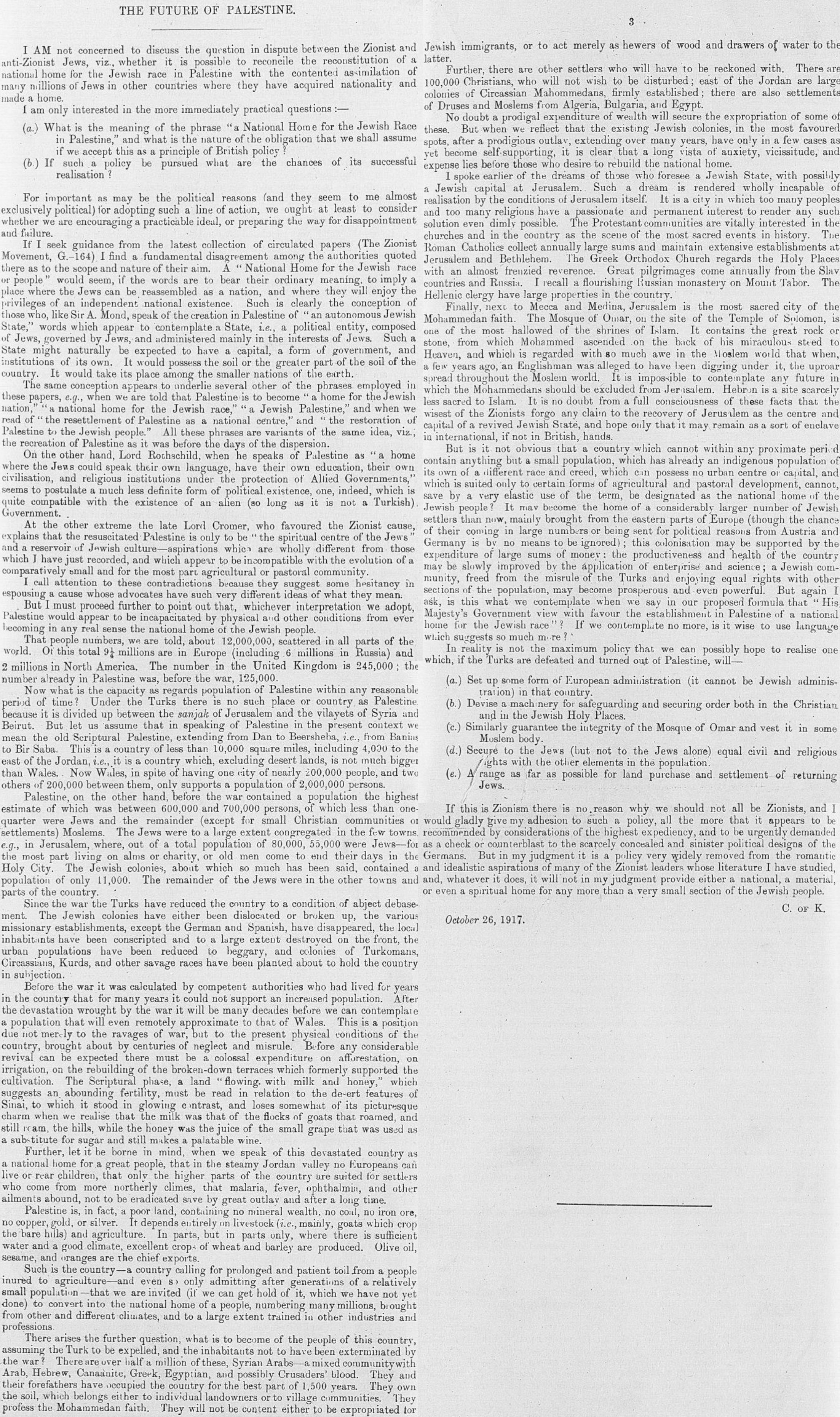 The Future of Palestine, Lord Curzon's October 1917 cabinet memorandum, one week prior to the Balfour Declaration